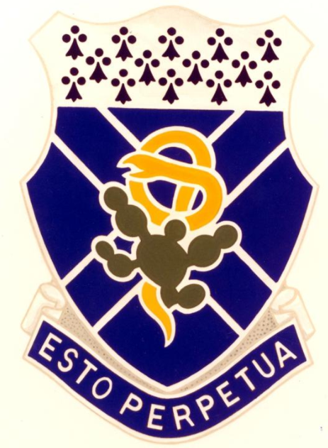 149th Infantry Regiment Coat of Arms